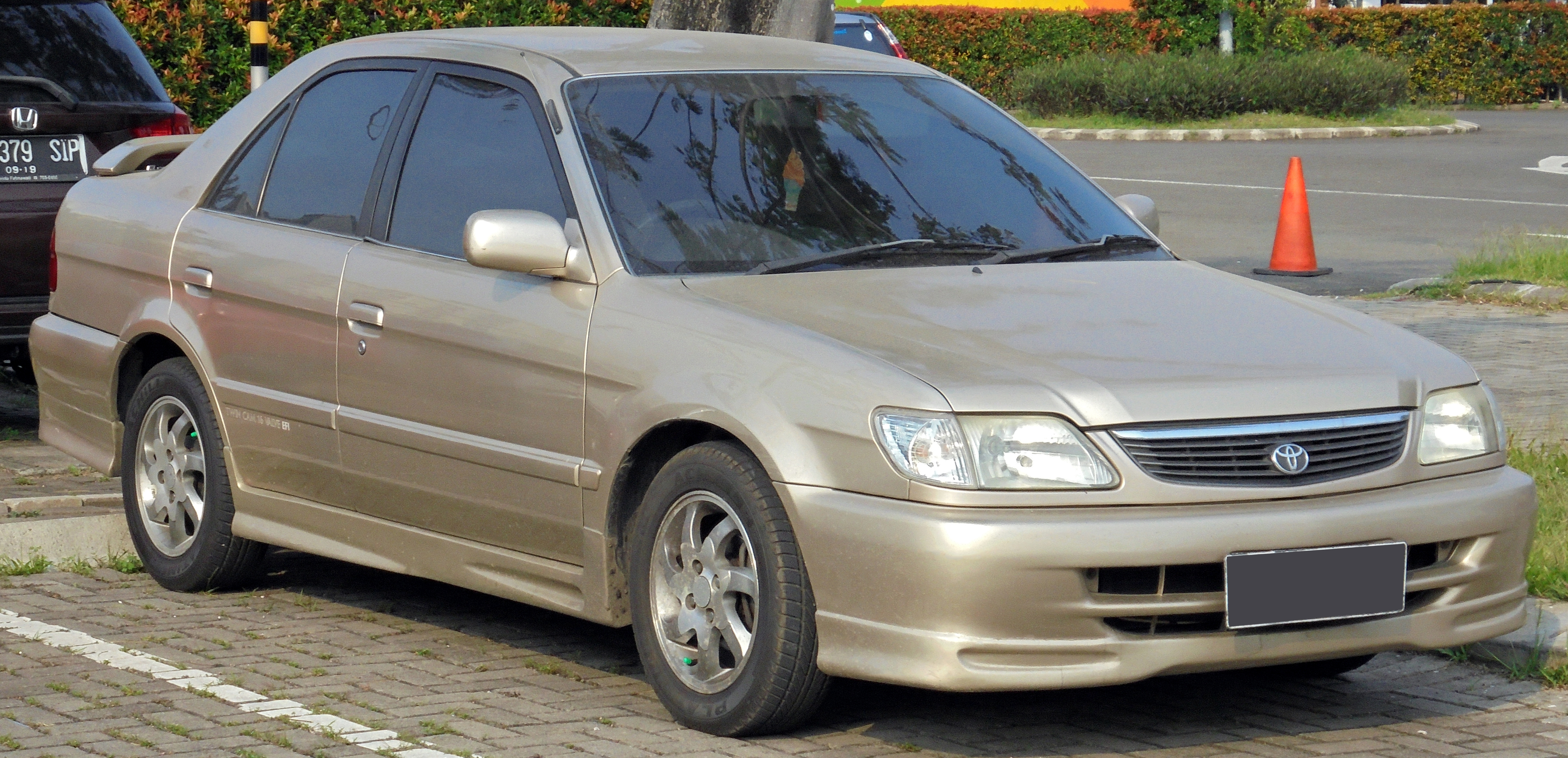 2001 Toyota Soluna 1.5 GLi sedan (AL50) photographed in South Tangerang, Banten, Indonesia.